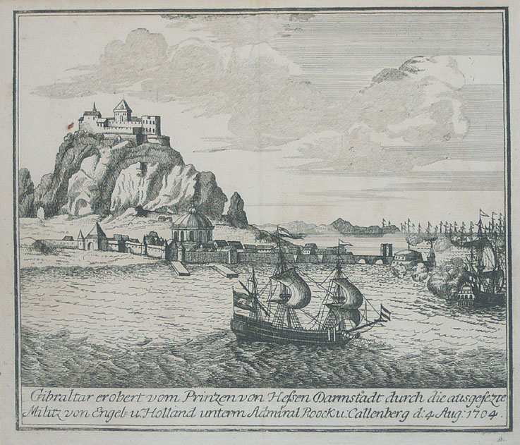 Copper engraving, uncolored as published. Decorative scenes of the Spanish war of succession 1701-14. Gibraltar erobert vom Prinzen von Hessen Darmstadt durch die ausgesezte Militz von Engel = u. Holland unterm Admiral Roock u: Callenberg d: 4. Aug: 1704.